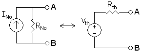 corrected current source direction